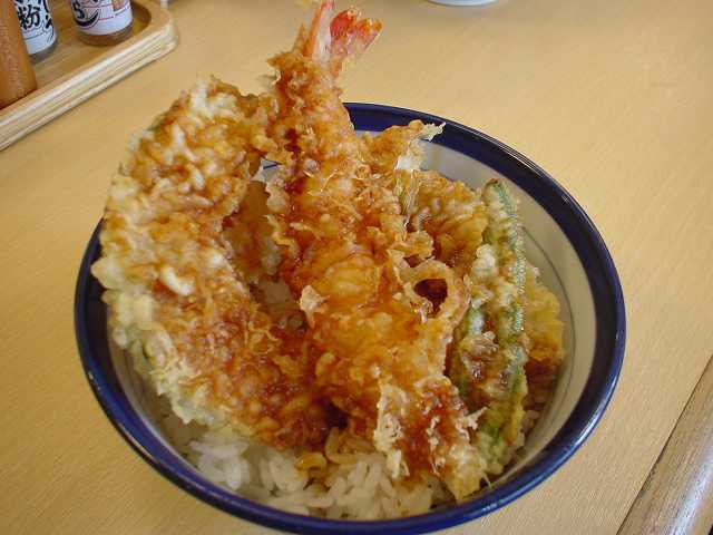 a piece of photo of Tendon